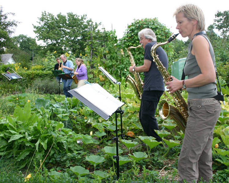 The ensemble "Saxomania" during the "Free Garden Academy 2006": Improvisations for eight saxophones of the musical tale "Peter and the Wolf" by Sergei Prokofev.